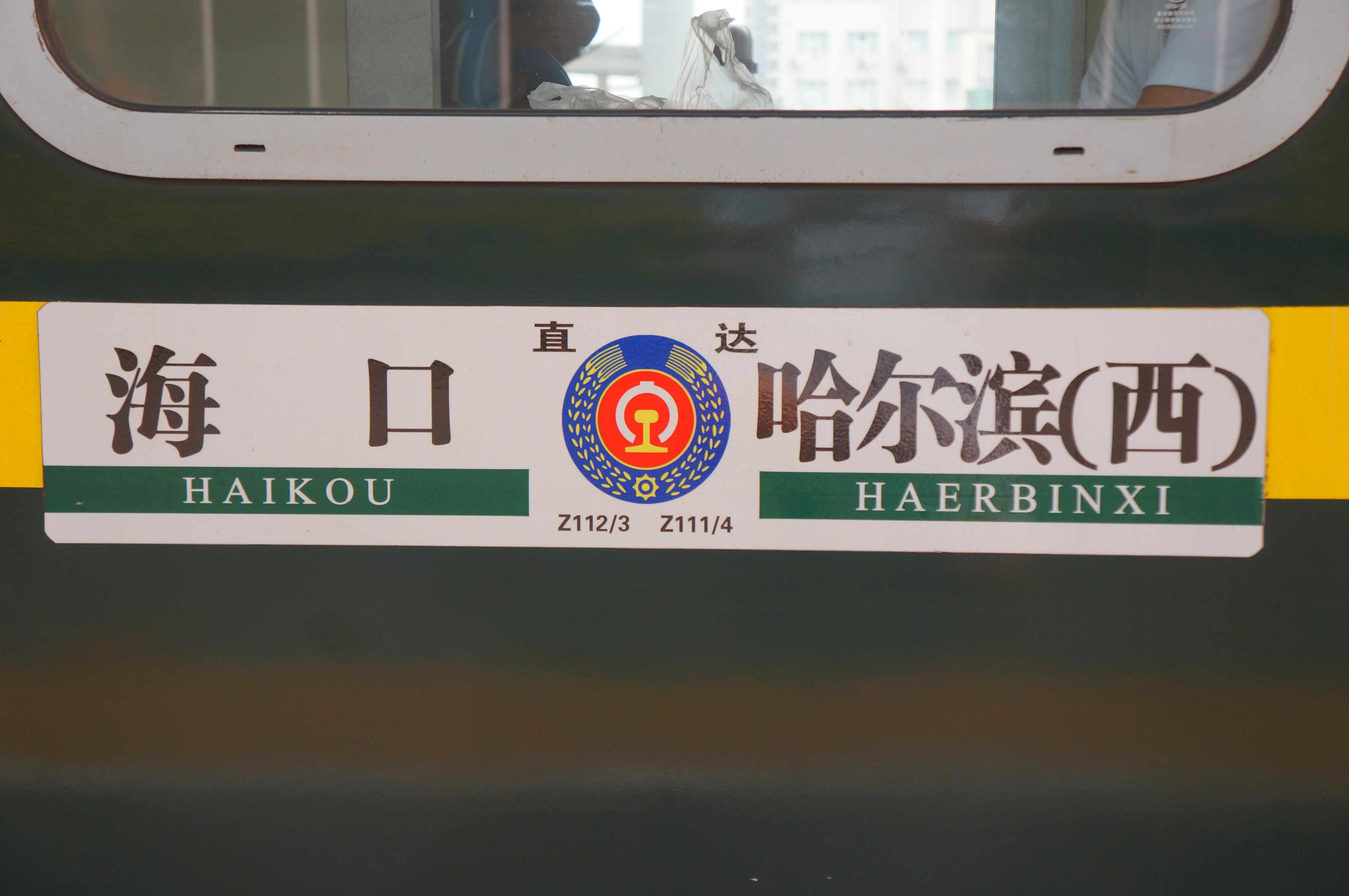 Z111 2 3 4 infoboard in 201705, taken at Jiujiang Station